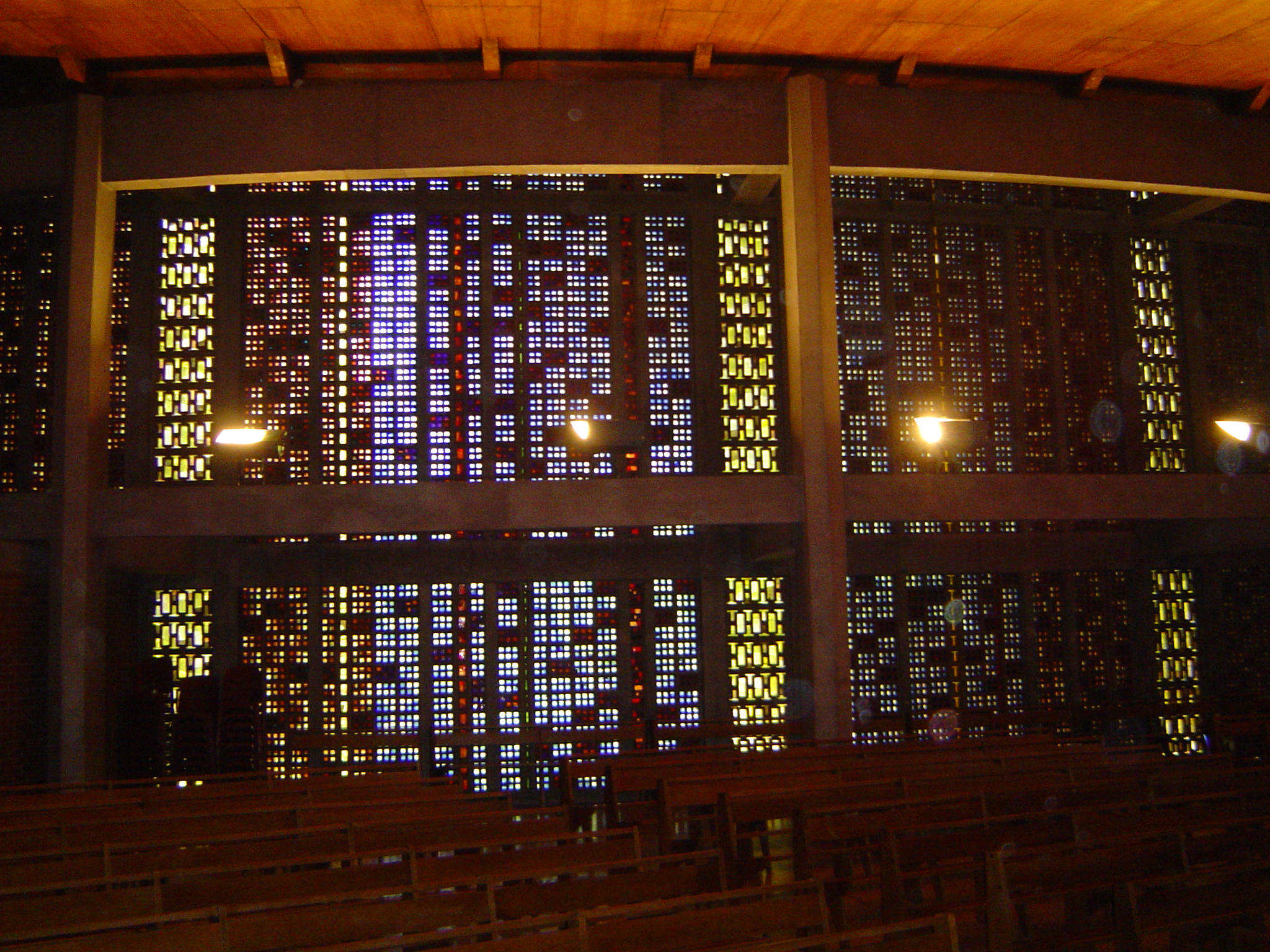 Antony-Chapelle Ste-Marie